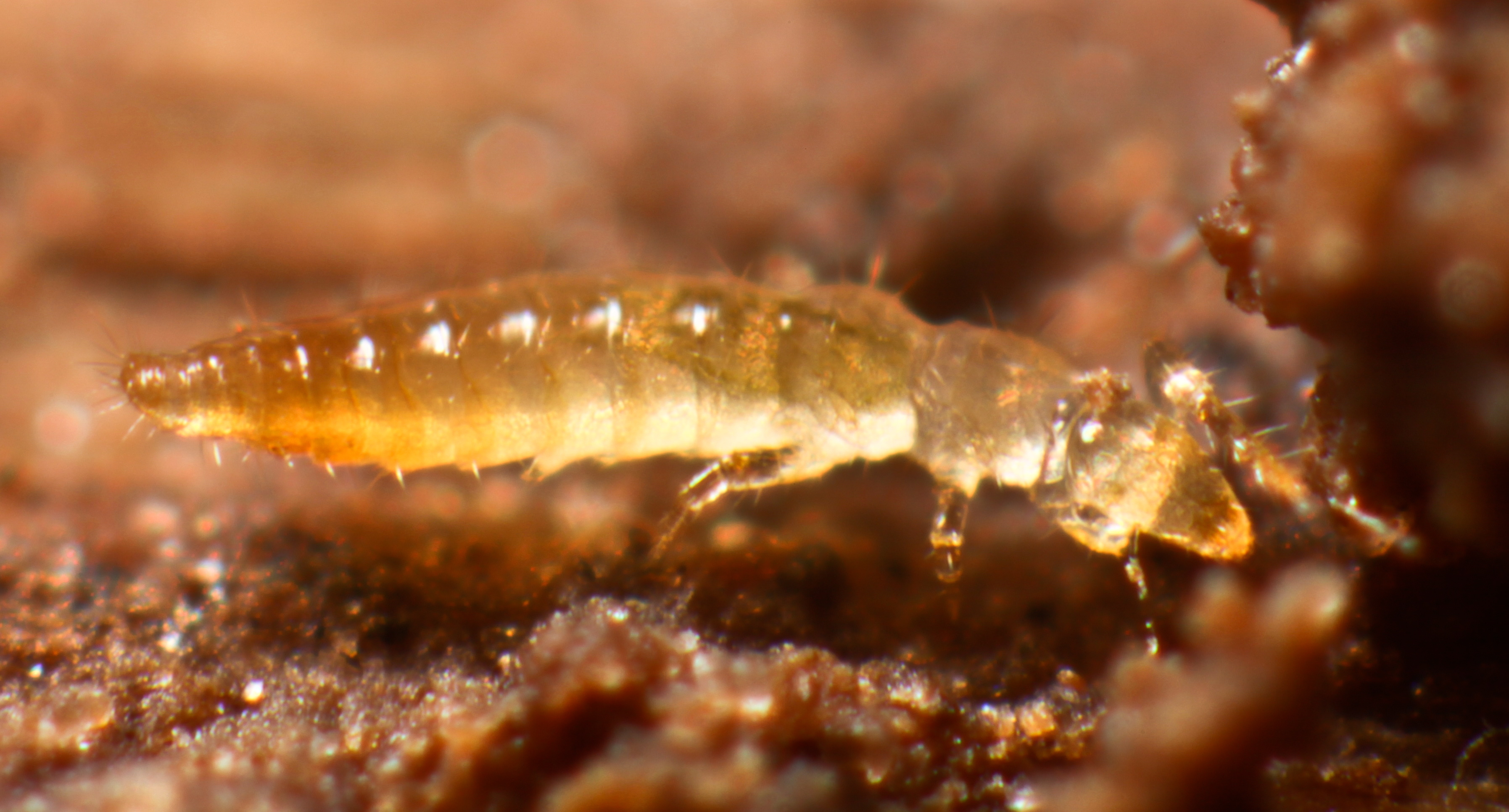 Possibly Acerentomon sp. from Compton Dundon, England, United Kingdom. Original description on Flickr: And here's another species of Protura I found yesterday, and it's so fast, much faster than the other ones and rather beautiful. They're all known as coneheads which I quite like as a name. They're pretty cool little things. This one's missing its right front leg, and as this is the only one like this I found, the photos look a little imbalanced...